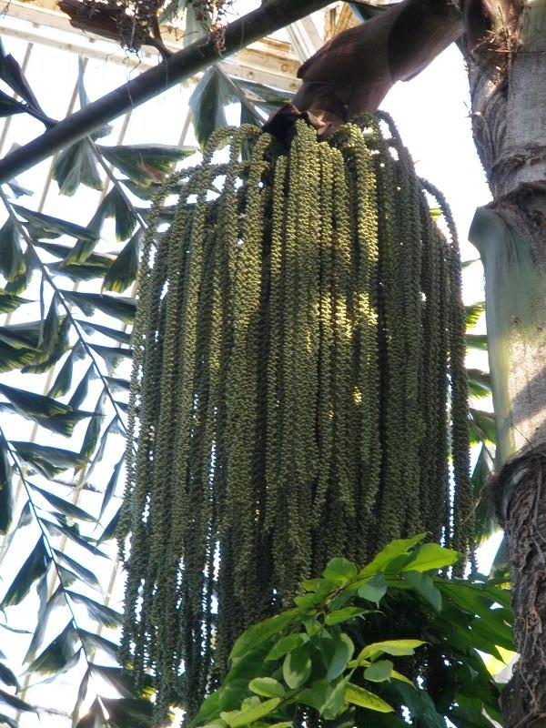 The inflorescence of the Burmese fishtail palm (Caryota mitis) at the Kew Gardens, England.